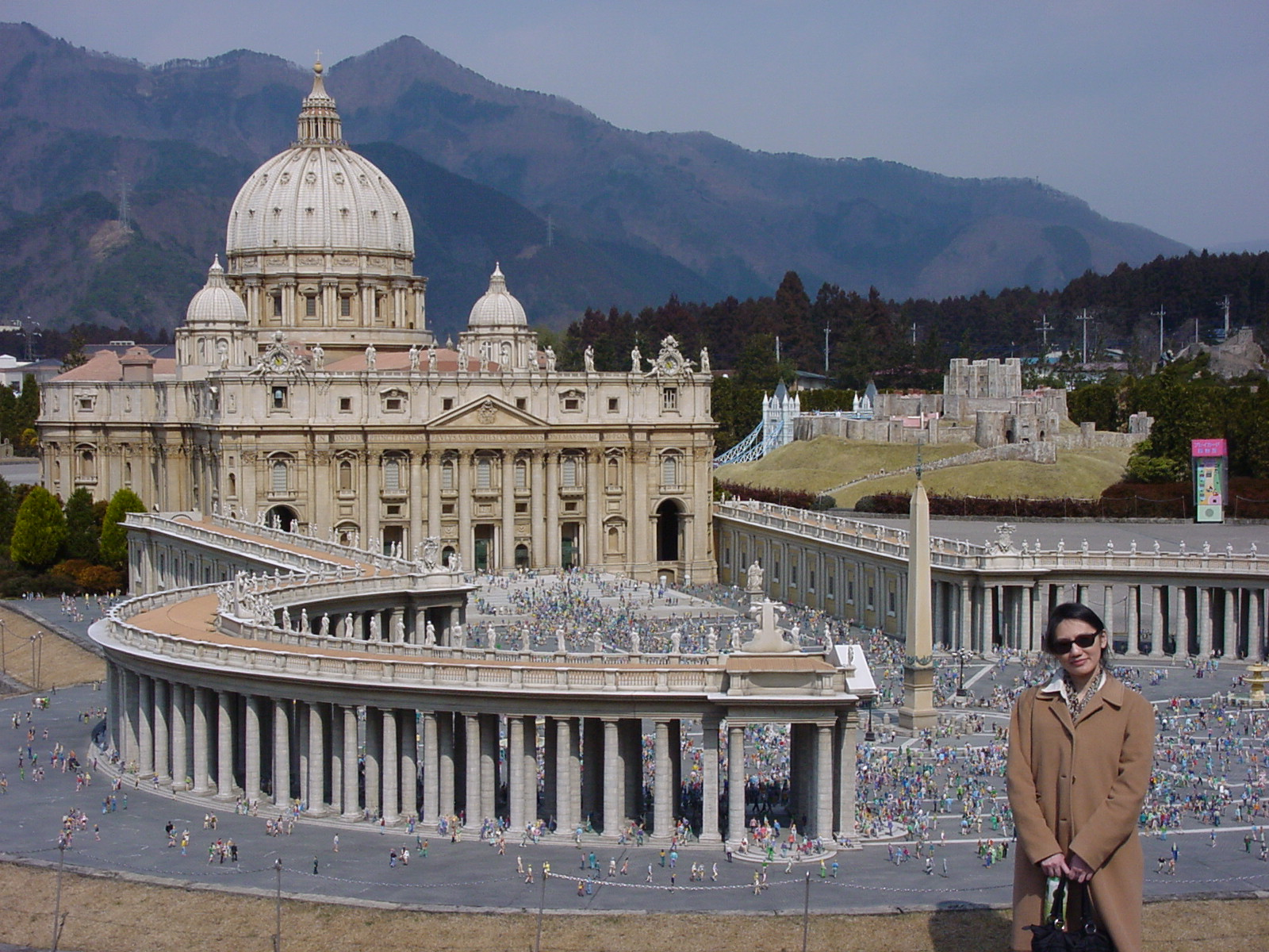 1:25 scale miniature St Peter's Basilica at Tobu World Square